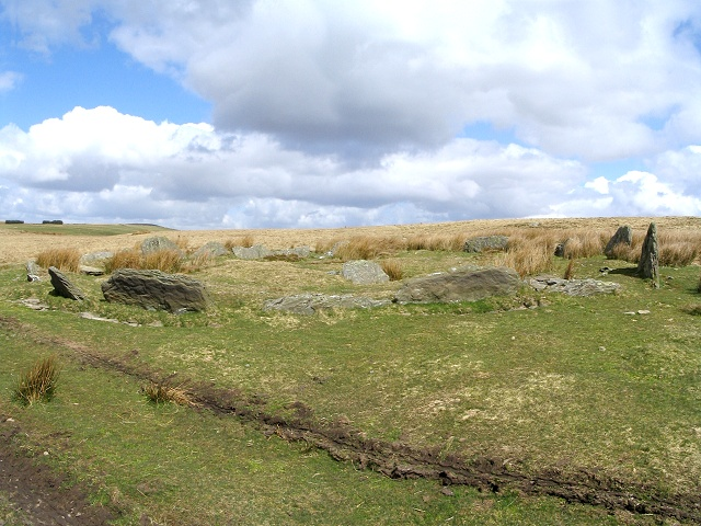 Carn Llechart. A low circle of flat, wide stones. There is a bronze age burial mound near here too.